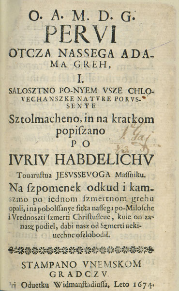 Cover of 'Pervi otca našega Adama greh' written by Juraj Habdelić, edition from 1674.